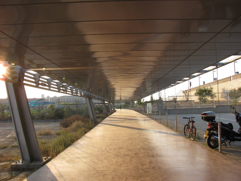 The bridge leads from the train station North into the University. Shaded and designed bridge.